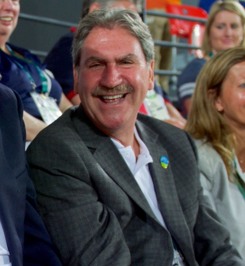 U.S. Secretary of State John Kerry sits with incoming United States Tennis Association President Katrina Adams and outgoing President Dave Haggerty as they watch U.S. tennis player Venus Williams play Belgian tennis player Kirsten Flipkens on August 6, 2016, during an Olympic tennis match at Olympic Park in Rio de Janeiro, Brazil, attended by Kerry and fellow members of the U.S. Presidential Delegation to the 2016 Summer Olympics. [State Department Photo/ Public Domain]